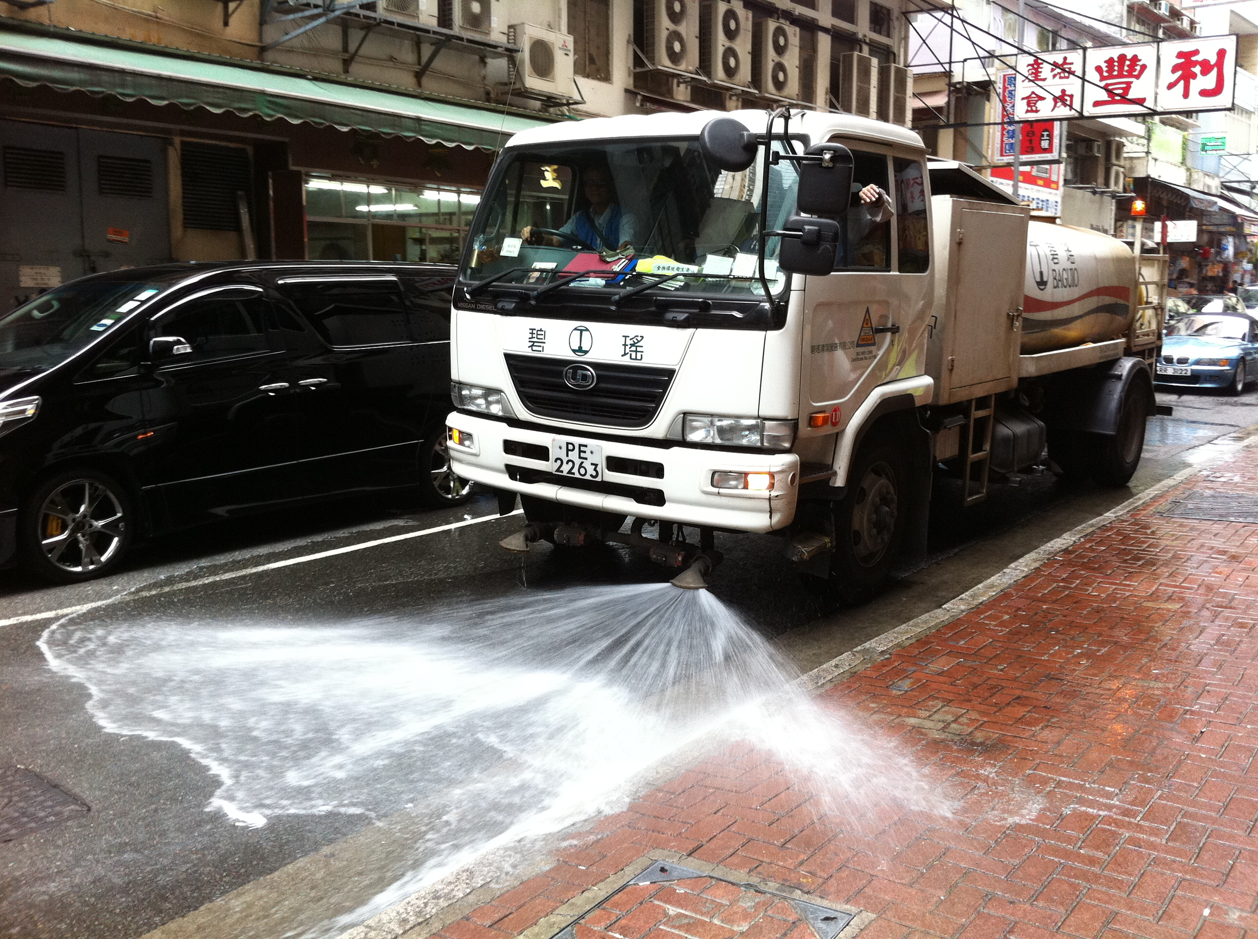 碧瑤 Baguio street cleaning truck at work with water at Jervois Street, Sheung Wan, Hong Kong